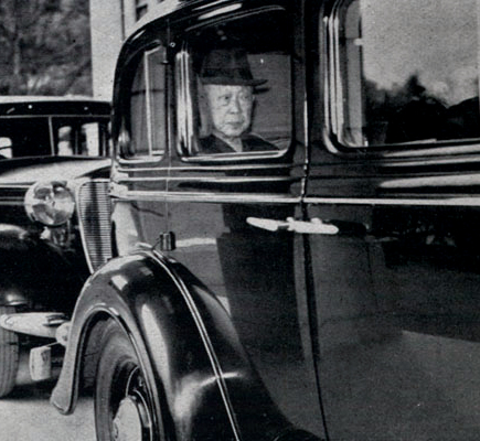 Kinmochi Saionji (西園寺公望) after having recommended Koki Hirota as new prime minister.